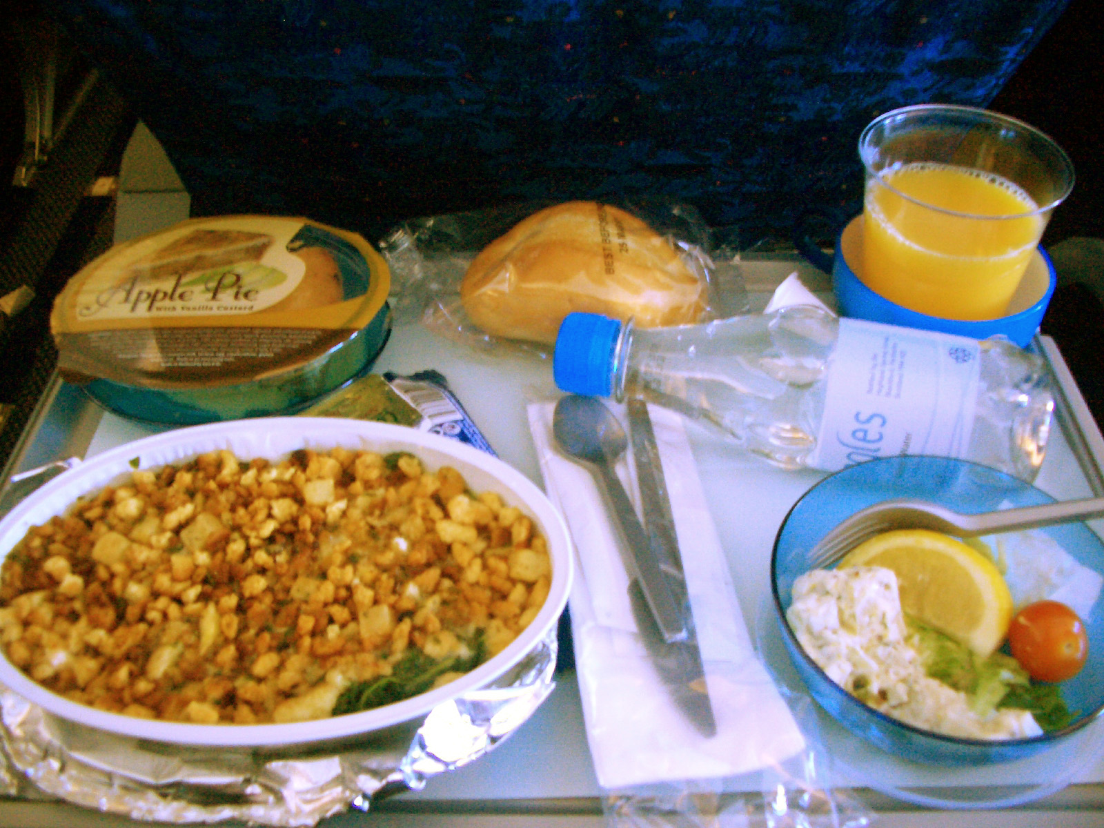 British Airways inflight meal